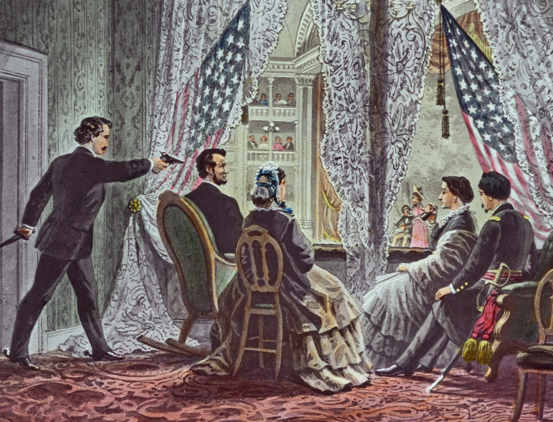 4"x3" slide depicting John Wilkes Booth leaning forward to shoot President Abraham Lincoln as he watches Our American Cousin at Ford's Theater in Washington, D.C. 14 April 1865.